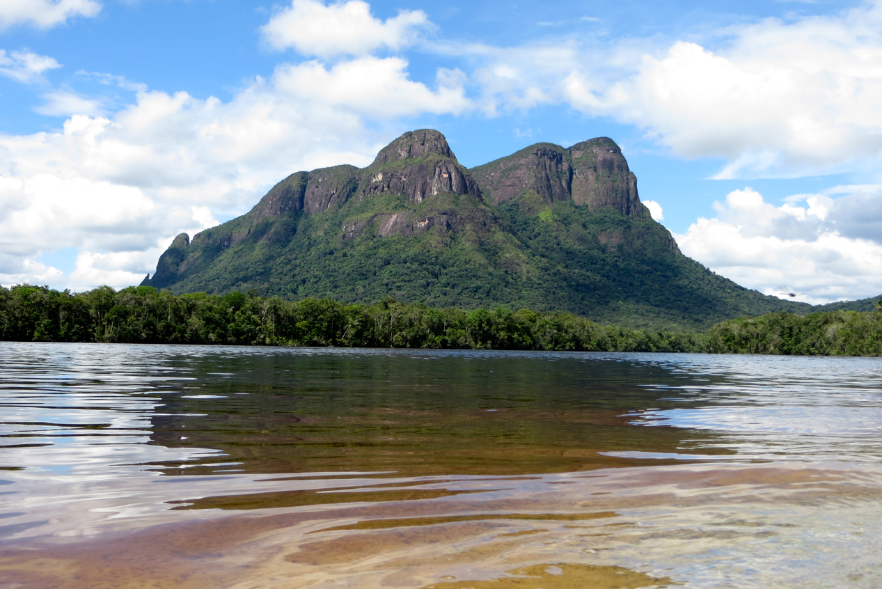 Wahari mountain, Amazonas, Venezuela